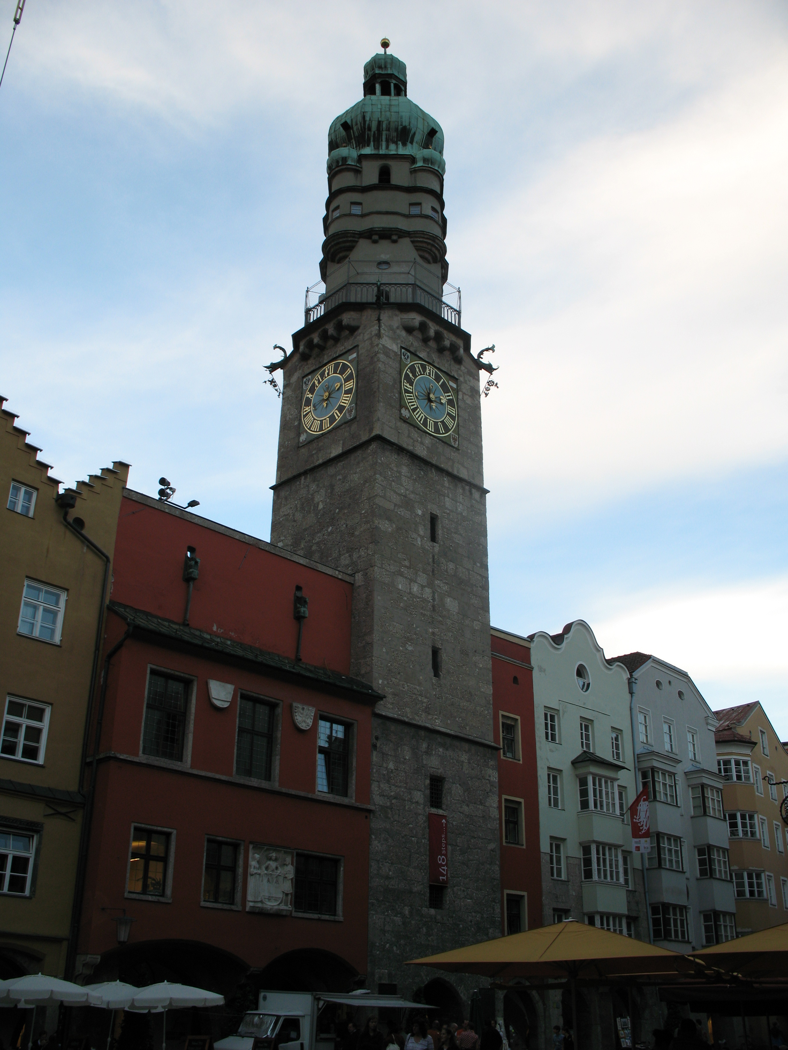 City Tower, Innsbruck, Austria